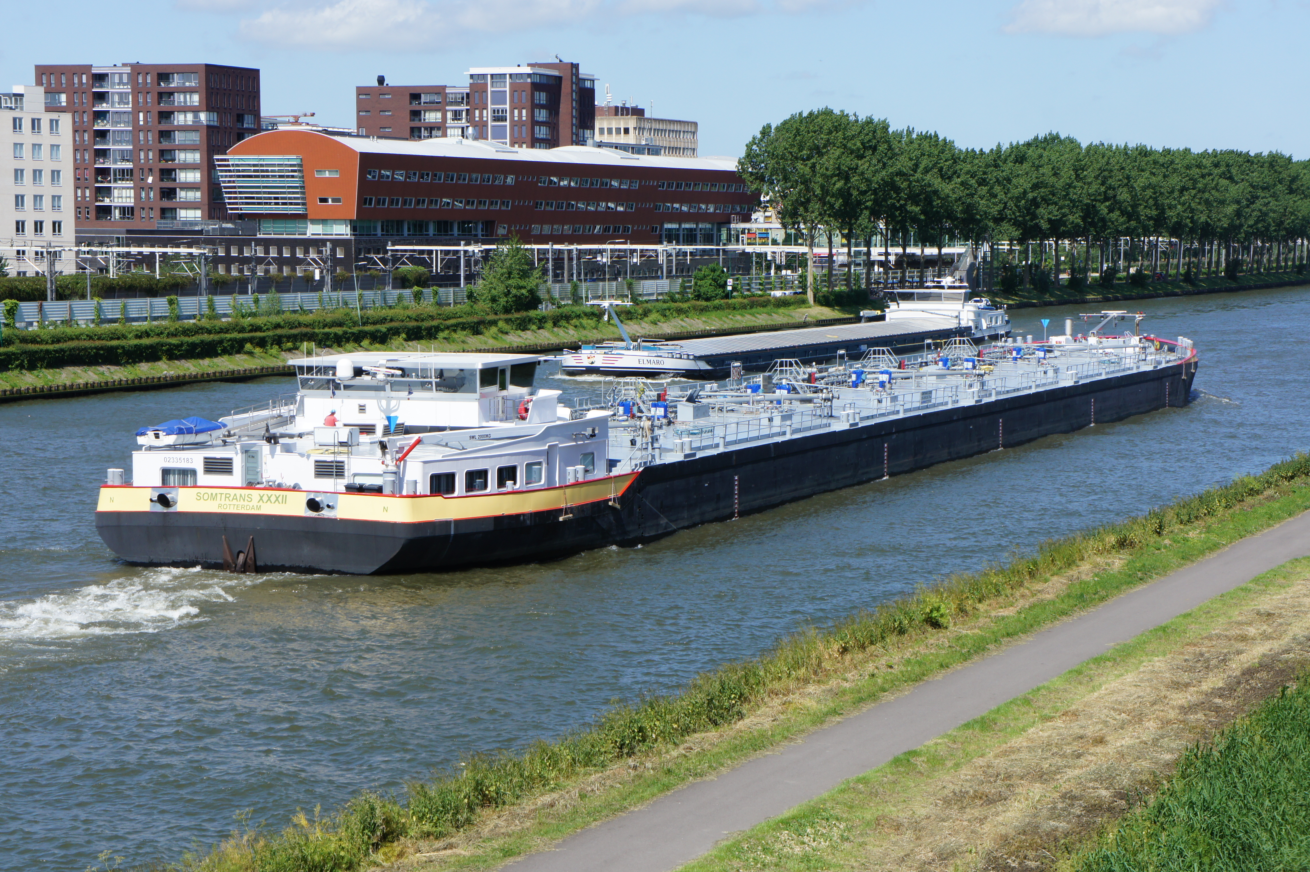 Ship photographed at the Amsterdam-Rijn canal, The Netherlands.